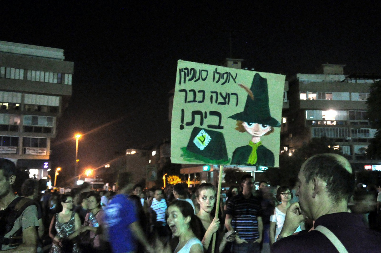 Social Protest in Tel Aviv, Economy of Israel